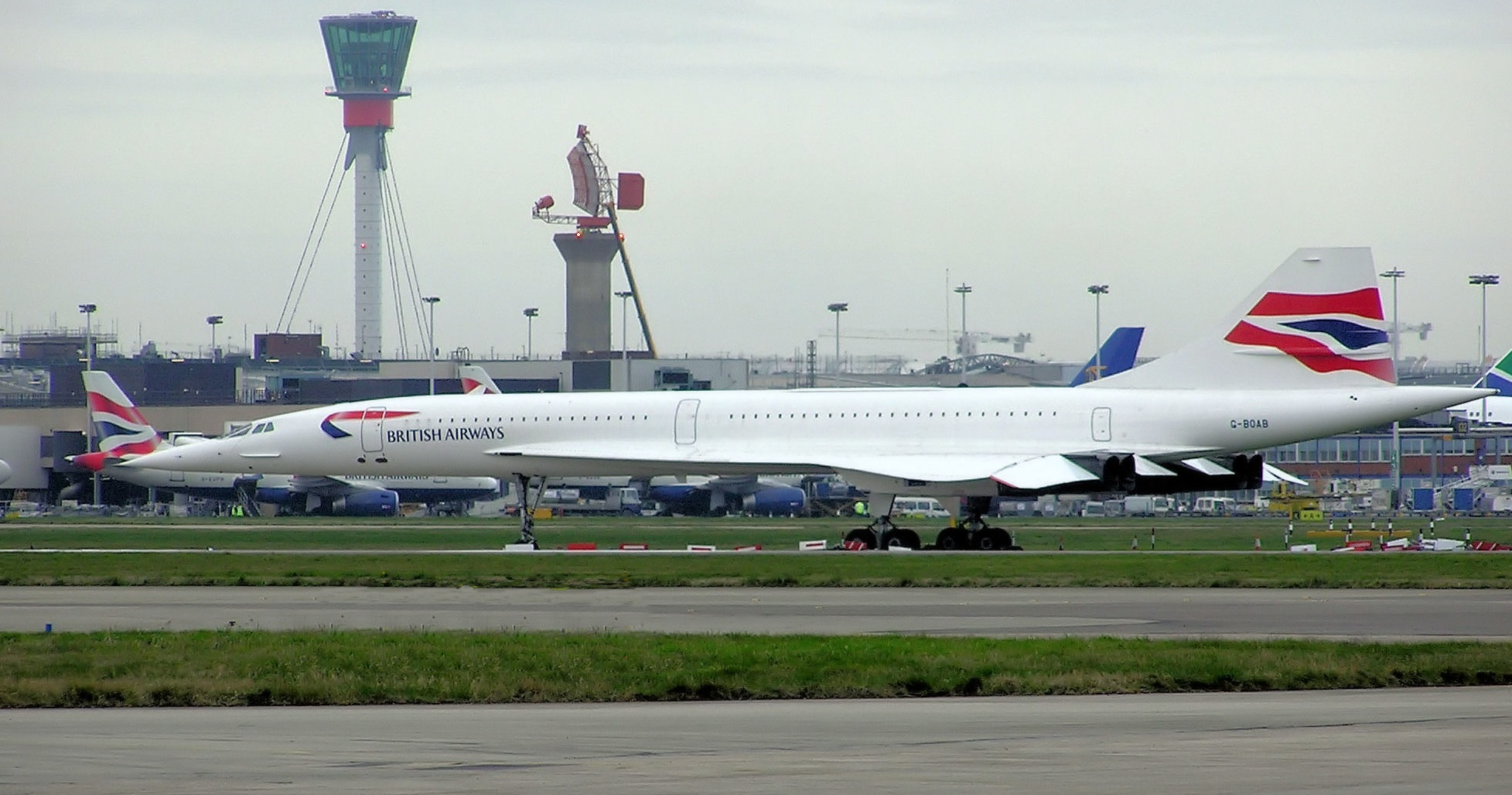 Concorde G-BOAB in storage at London Heathrow Airport following the end of all Concorde flying. This aircraft flew for 22296 hours between first flight in 1976 and grounding in 2000. Photographed by Adrian Pingstone and placed in the public domain.